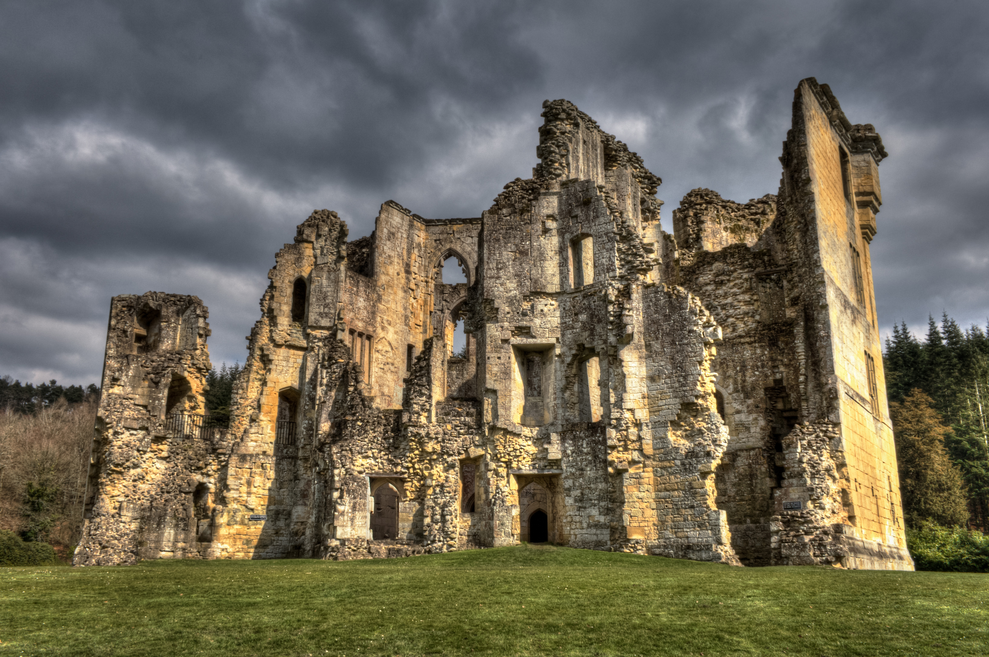 An overcast day at Old Wardour Castle, but the sun was shinning! This is my favourite angle because you can see the internal structure. This photo has been featured in the English Heritage flickr gallery for this castle